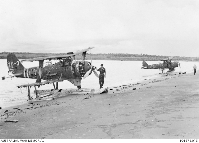 Two damaged Mitsubishi F1M2 (Allied code name "Pete") observation seaplanes beached at the former Japanese seaplane base at Rekata Bay on the northern end of Santa Isabel island in March 1944. The man standing on the float of the nearer aircraft is flight lieutenant J. Beattie, Royal New Zealand Air Force.